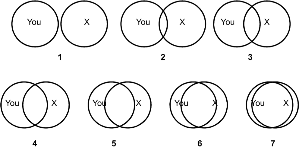 Inclusion of other in the self scale adapted by Simon Gächter, Chris Starmer, Fabio Tufano 2015